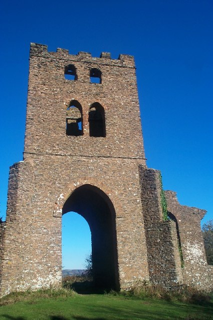 Tower on Willett Hill, Somerset. I think this was built as a folly and at one time did have a roof. Through the arch is a glimpse of the Quantocks. There are views to the South and East. Willett Hill is "open access" land.